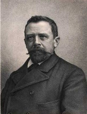 Hans Jacob Hansen (1855-1900), Danish politician, MP